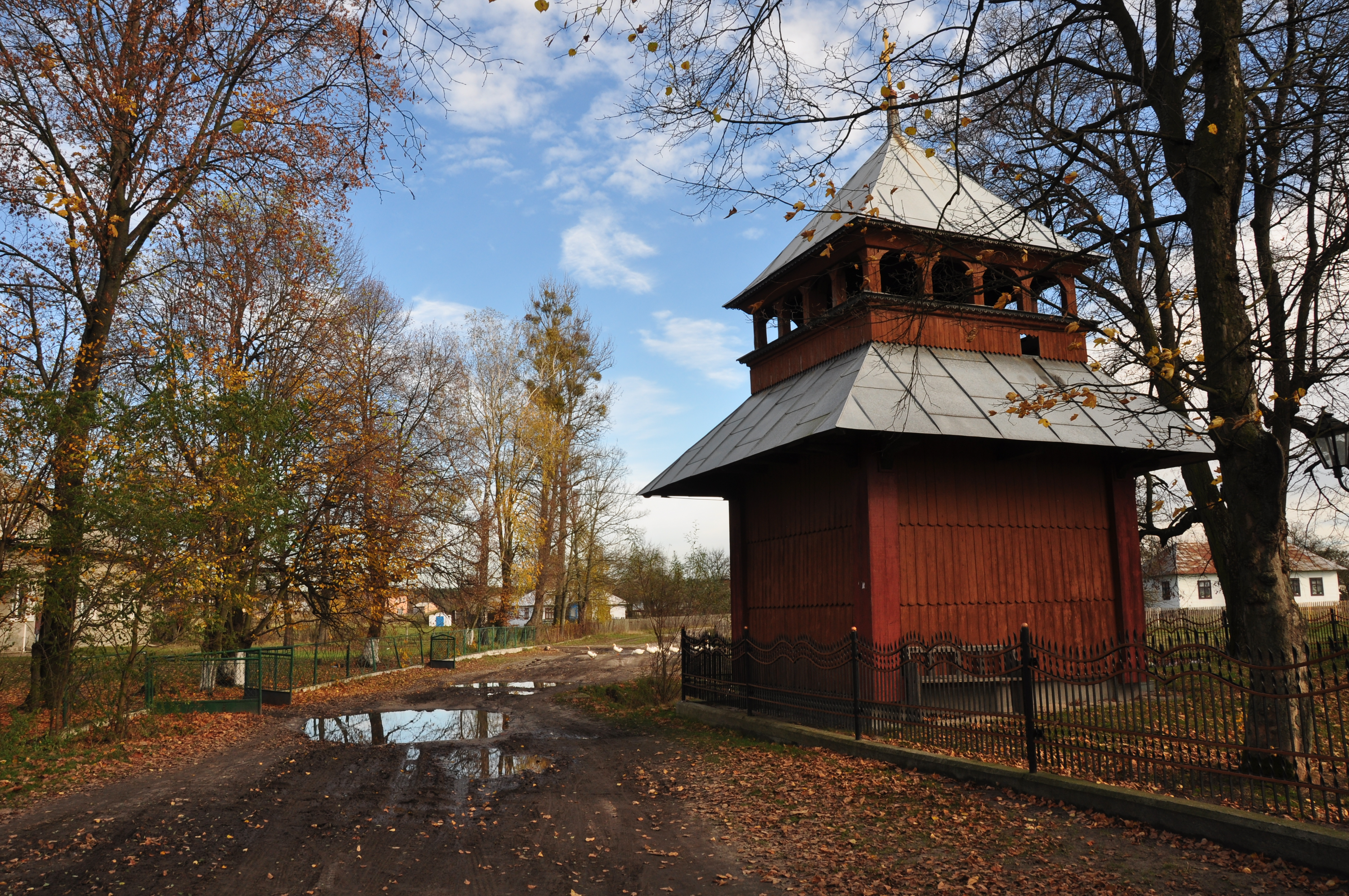 Bell Tower of the Church of Assumption of Mary, Tyshycia village, Kamianka-Buzka Raion, Lviv Oblast